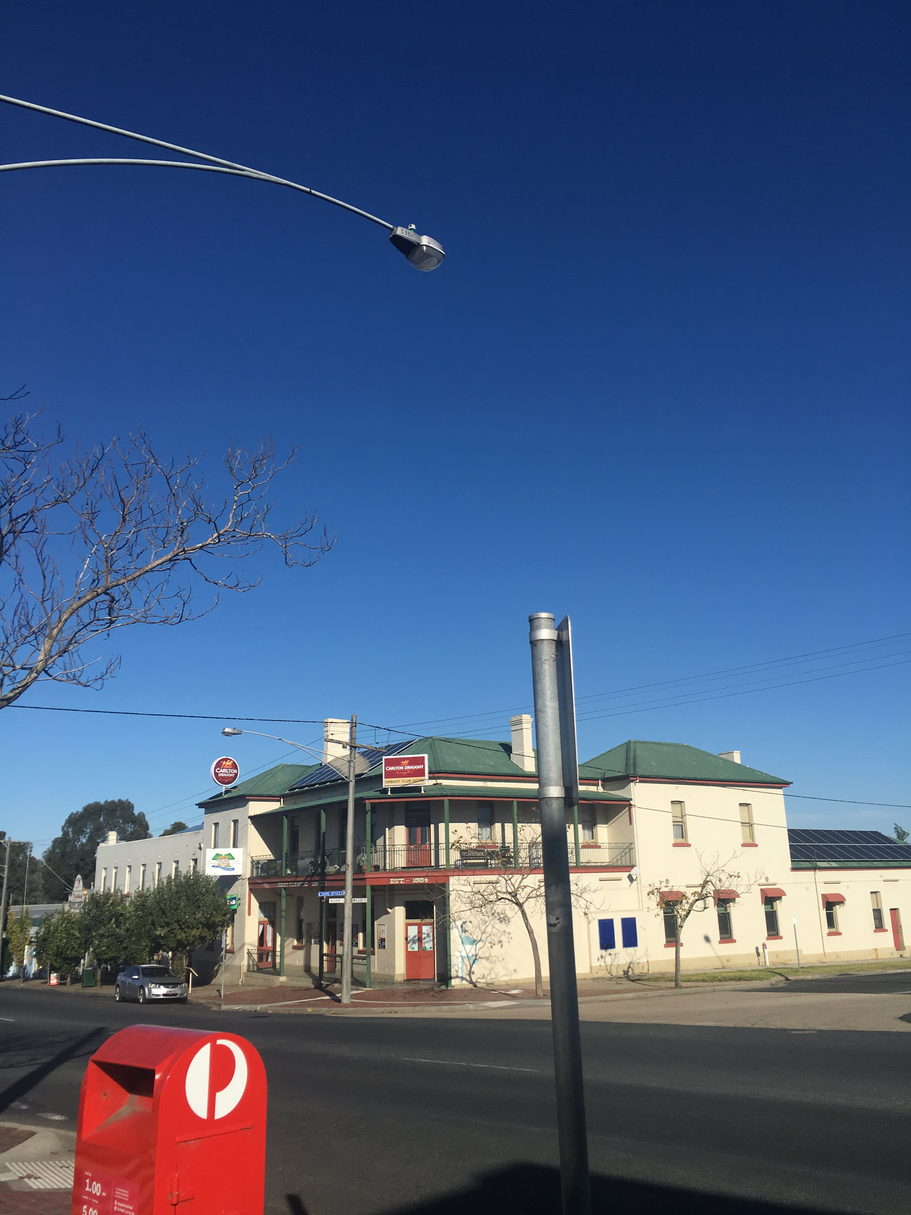 The oldest pub in Orbost - established in 1884 colloquially known as “The Bottom Pub”.